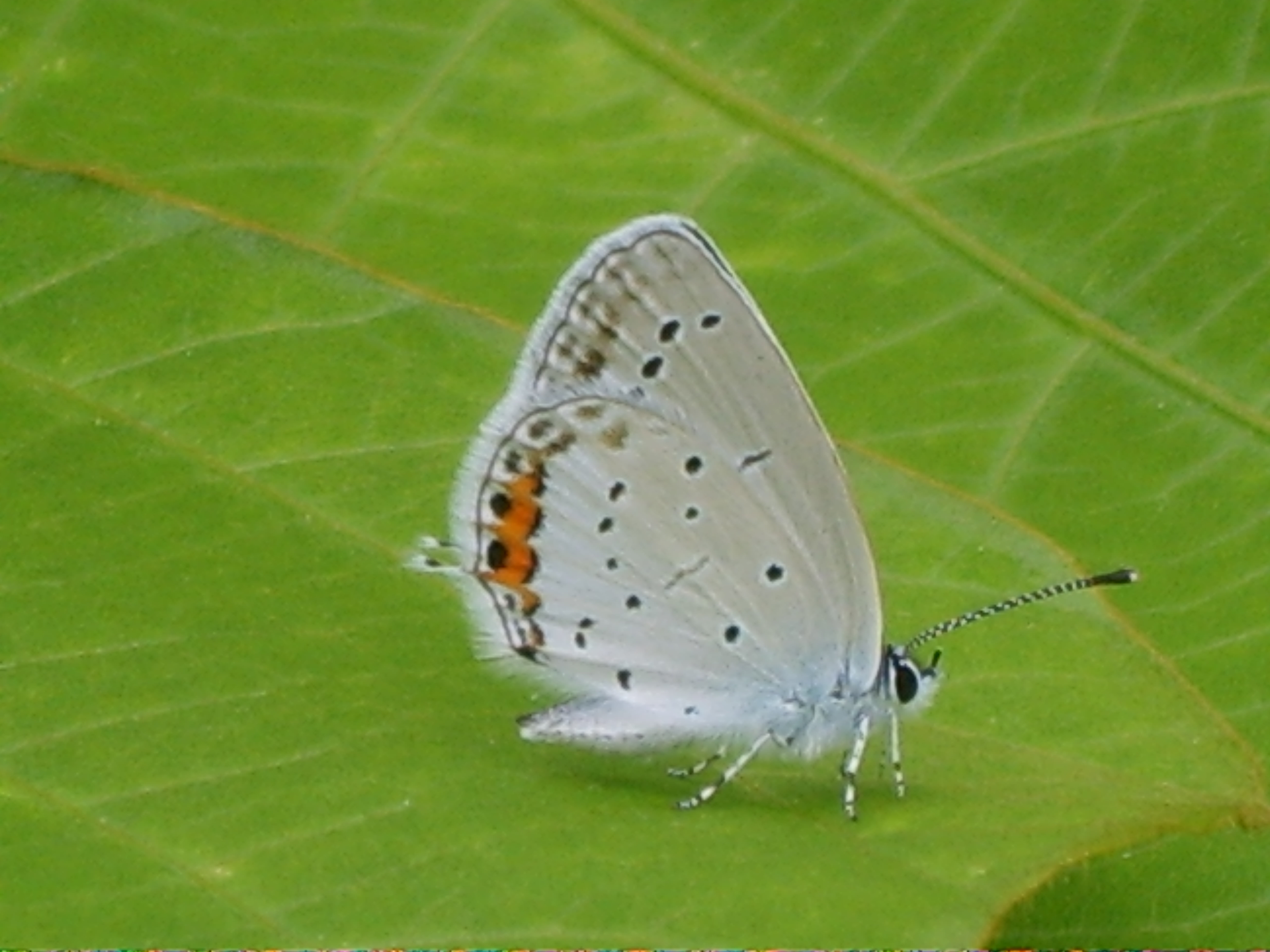 Everes argiades in Inchoen, Korea